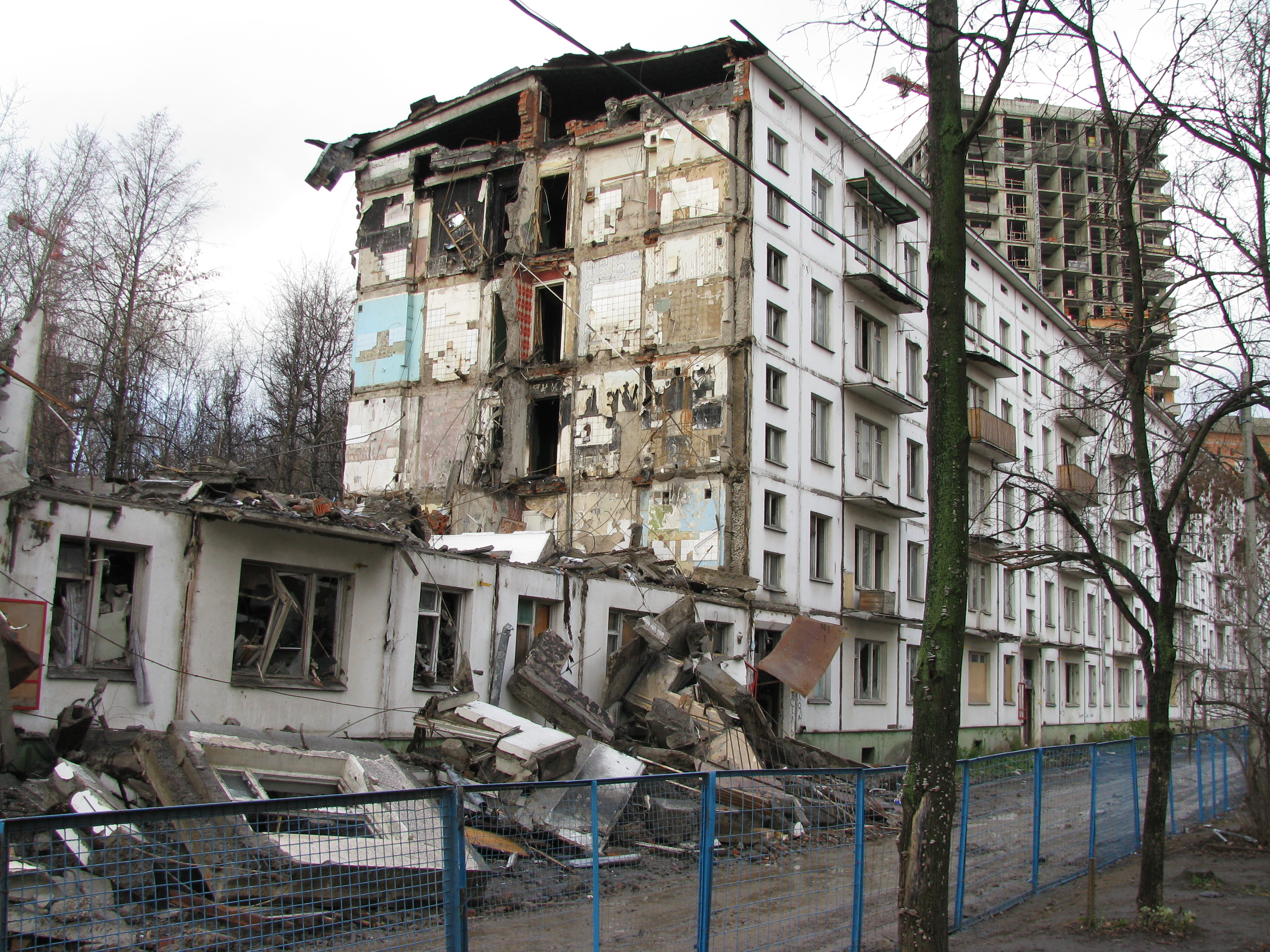 Destroyed Khruschev house in Moscow